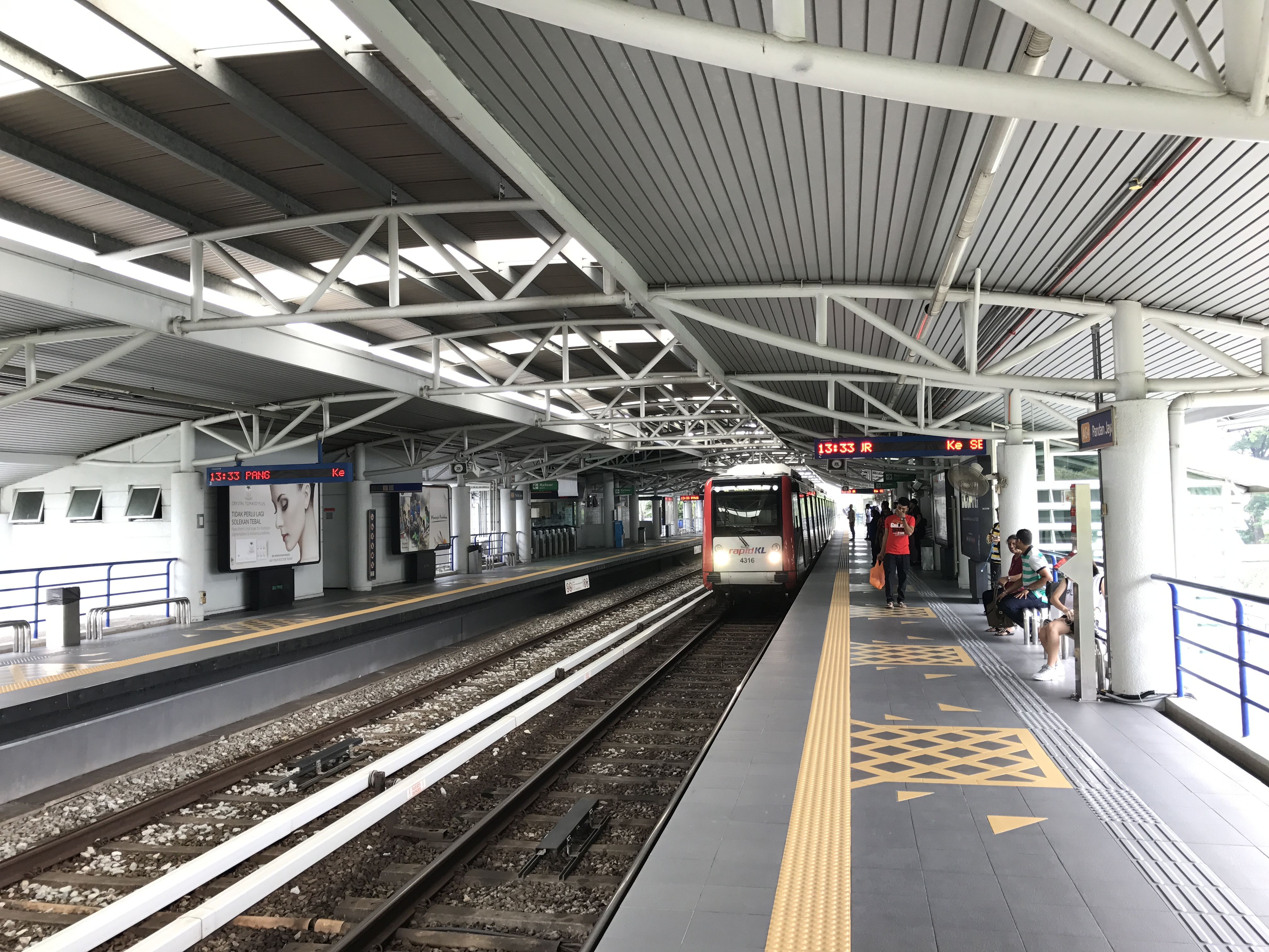 Pandan Jaya LRT Station Platform